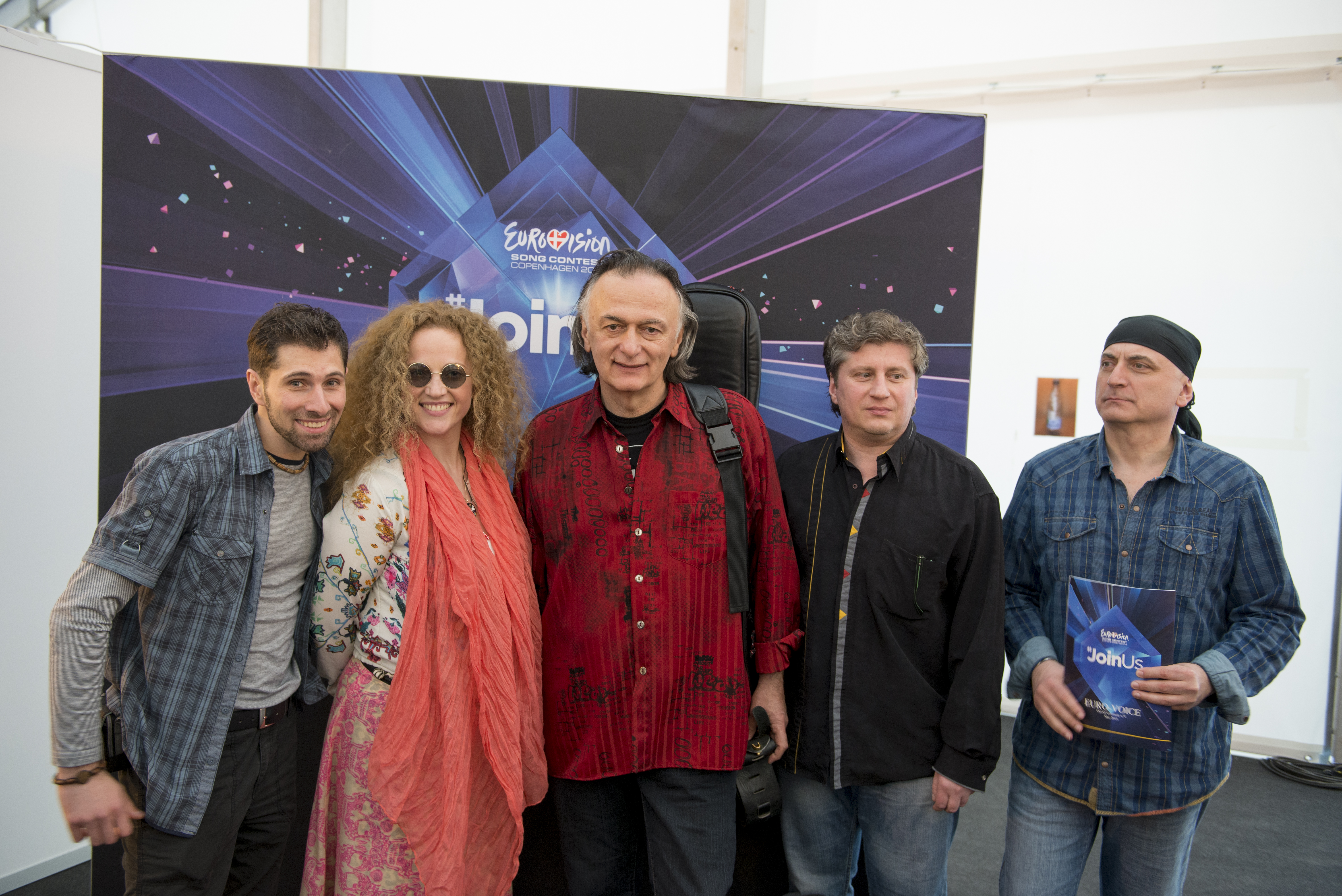 The Shin and Mariko Ebralidze at a Meet & Greet during the Eurovision Song Contest 2014 Copenhagen. (Help translate this text)